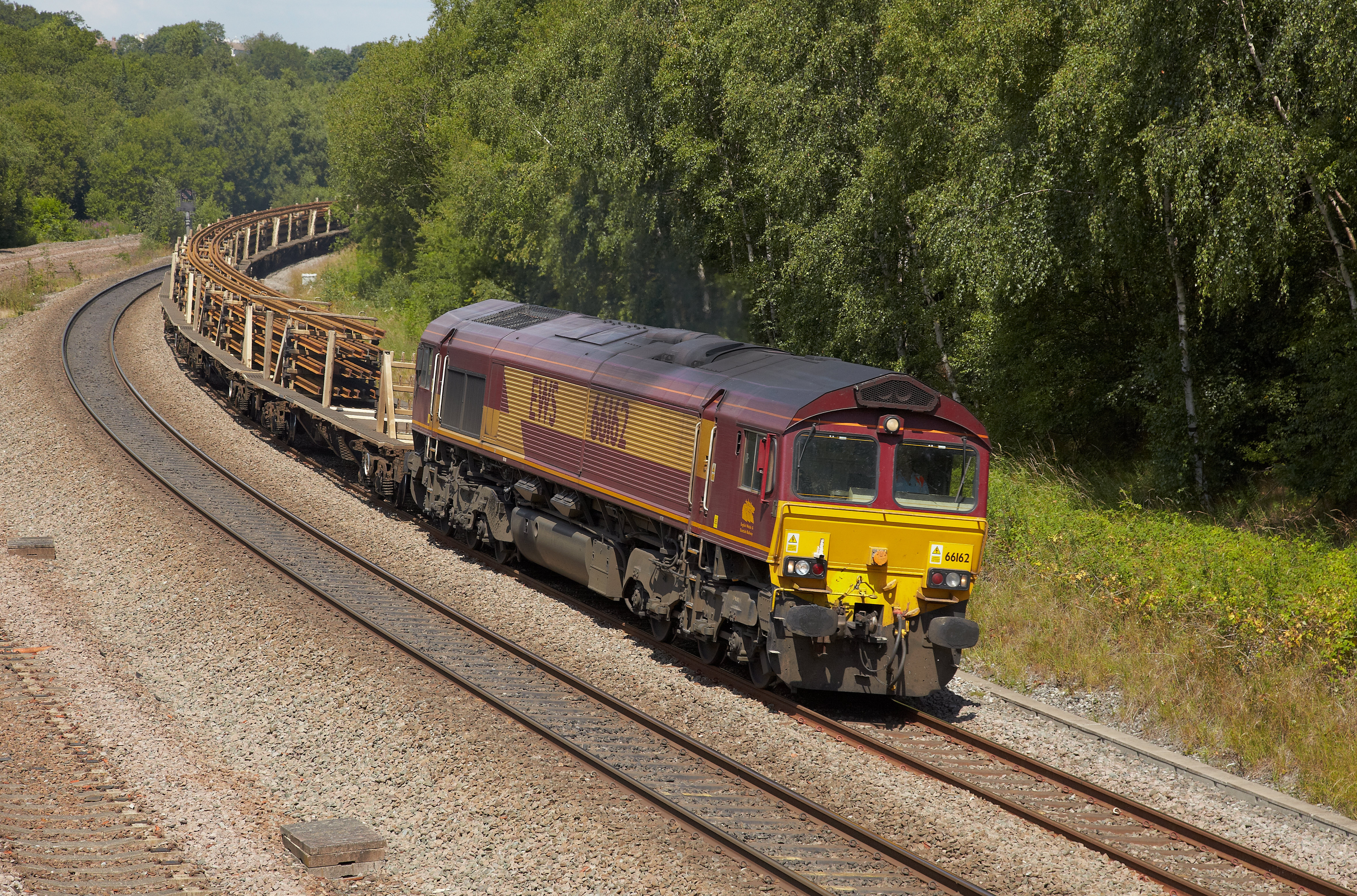 66162 passes North Wingfield working 6M73 Doncaster - Toton. Back to the old routine......No 60 today